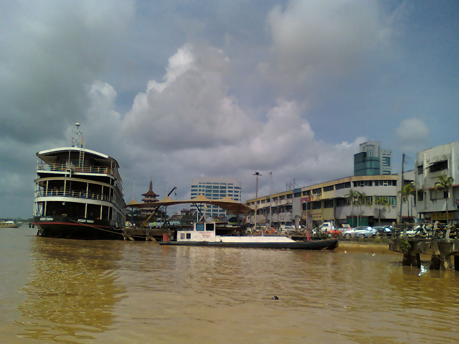 The busy Rajang River seen from Sibu Express Terminal. Pandaw River Cruise (left most) was seen tied to the Wharf Terminal, with Tua Pek Kong Temple, Wisma Vasty (which houses Inland Revenue Board of Malaysia, Sibu branch) and Wisma Sanyan in the background (left to right).